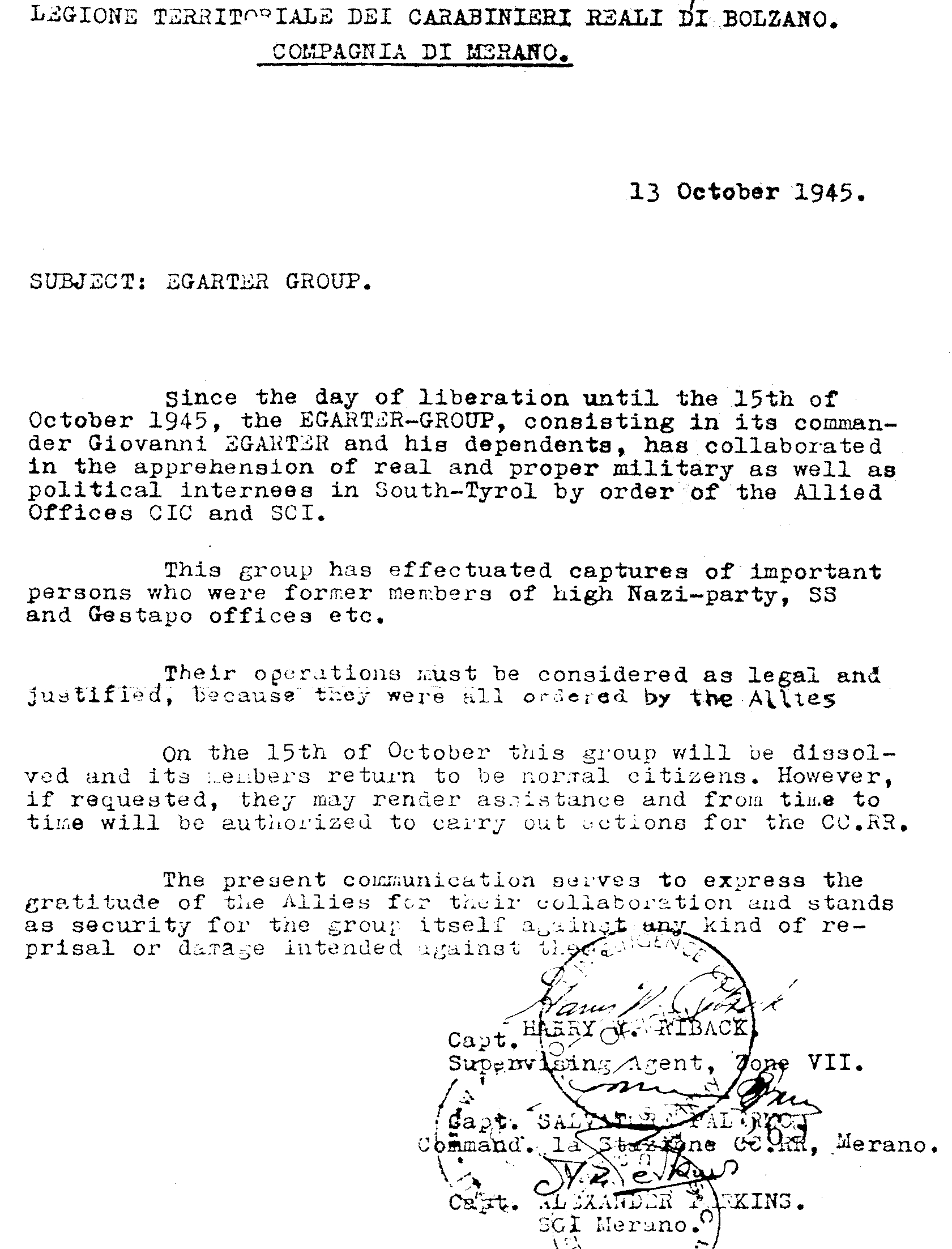 Declaration of the allied services that the AHB has collaboratet with the CIC and SCI in 1945